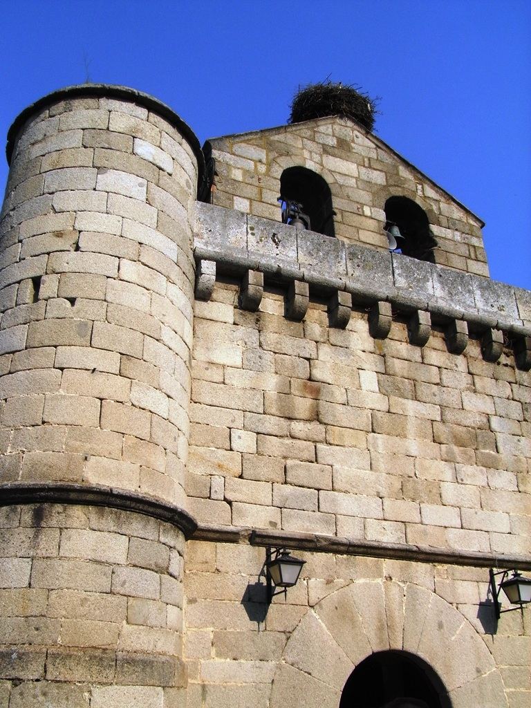 Church of the Asunción de Nuestra Señora. Alpedrete (Community of Madrid, Spain9